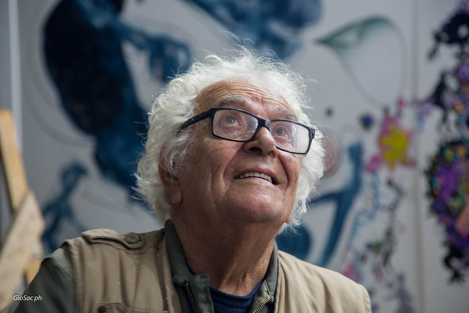 Paolo Buggiani Backstage in 2014 (Iron and Fire: Art Revolution by Paolo Buggiani)